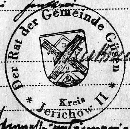 Seal of Güsen, Germany